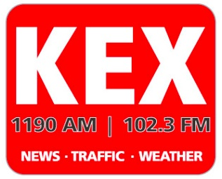 Official logo for KEX AM 1190 and FM 102.3 in Portland, OR.